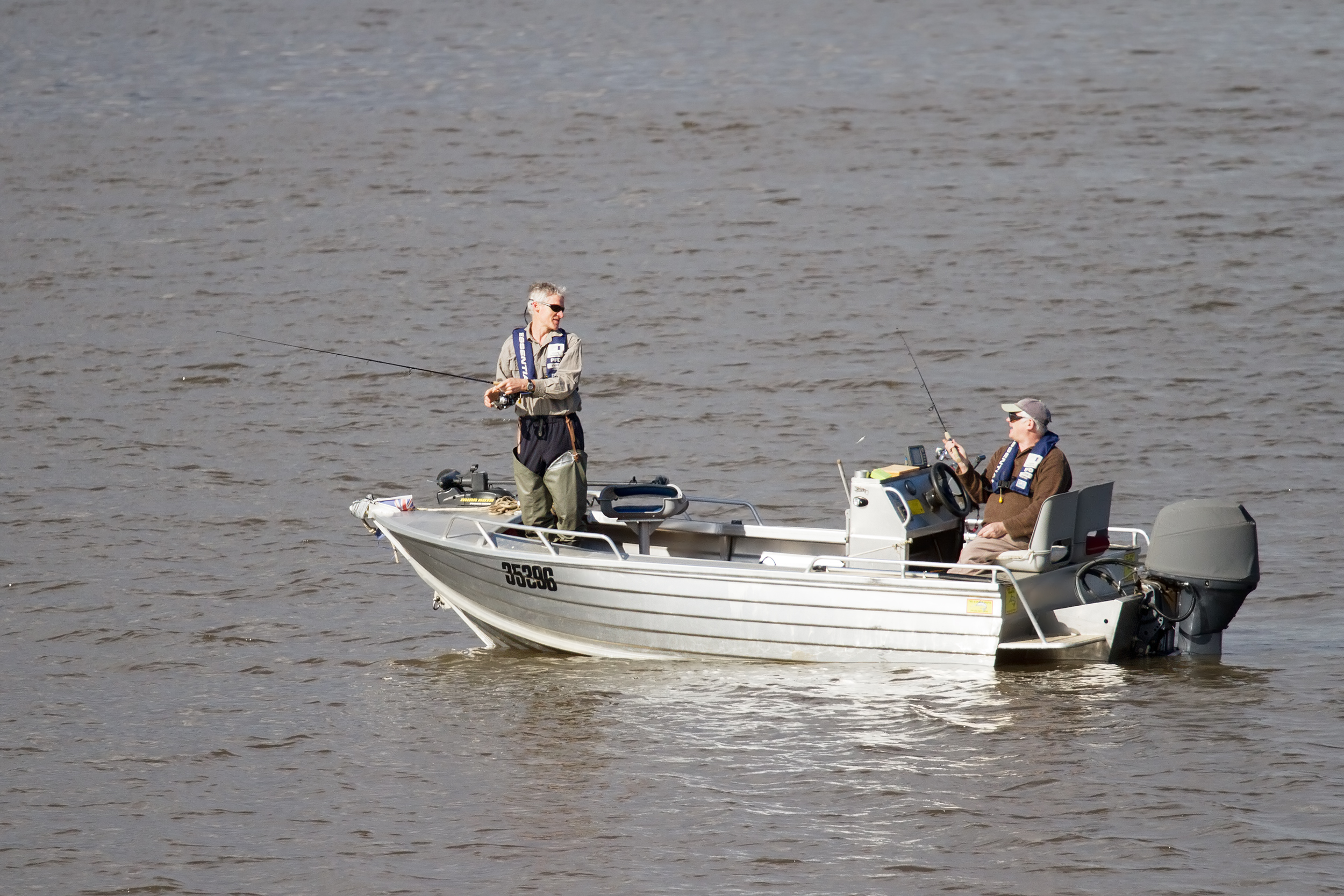 Fishermen in a "tinnie", Austin's Ferry, Hobart, Tasmania, Australia